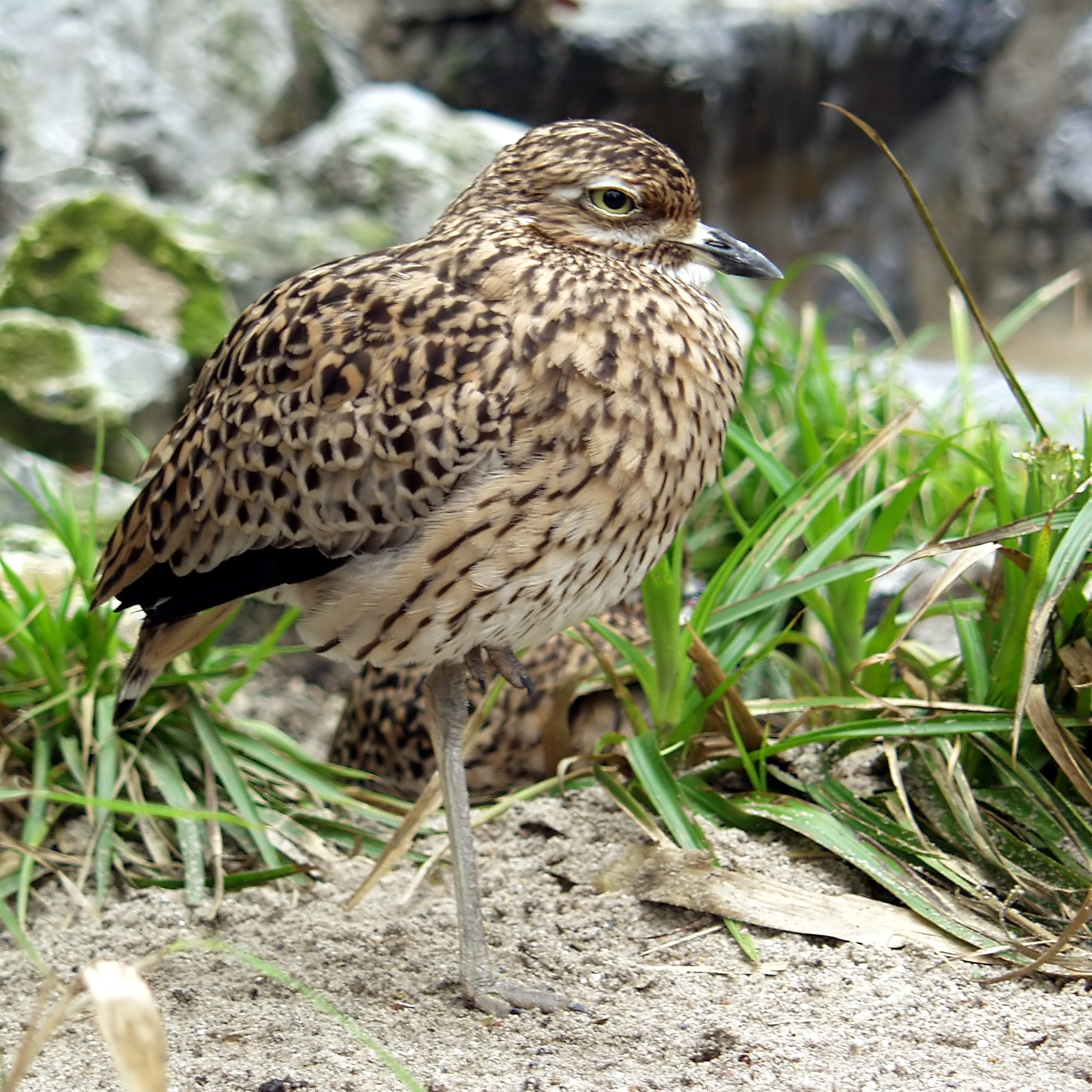 Spotted dikkop (Burhinus capensis) in Zoo Duisburg